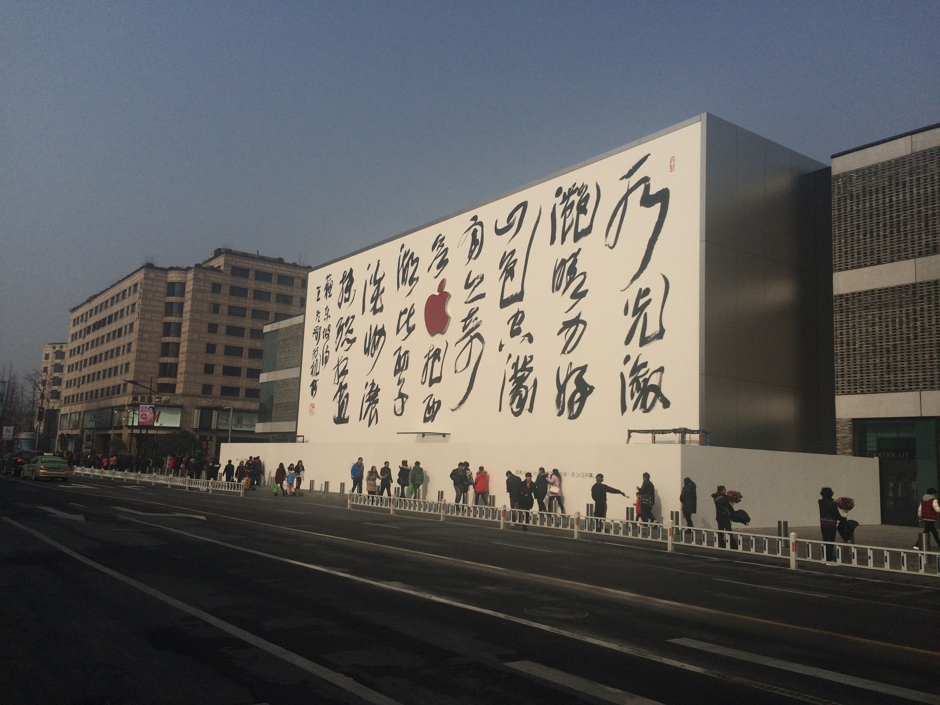 Hangzhou West Lake Apple Store before opening